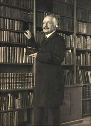 Hans Rudolf Hiort-Lorenzen (1832-1917), Danish journalist, writer, genealogist, and politician, MP